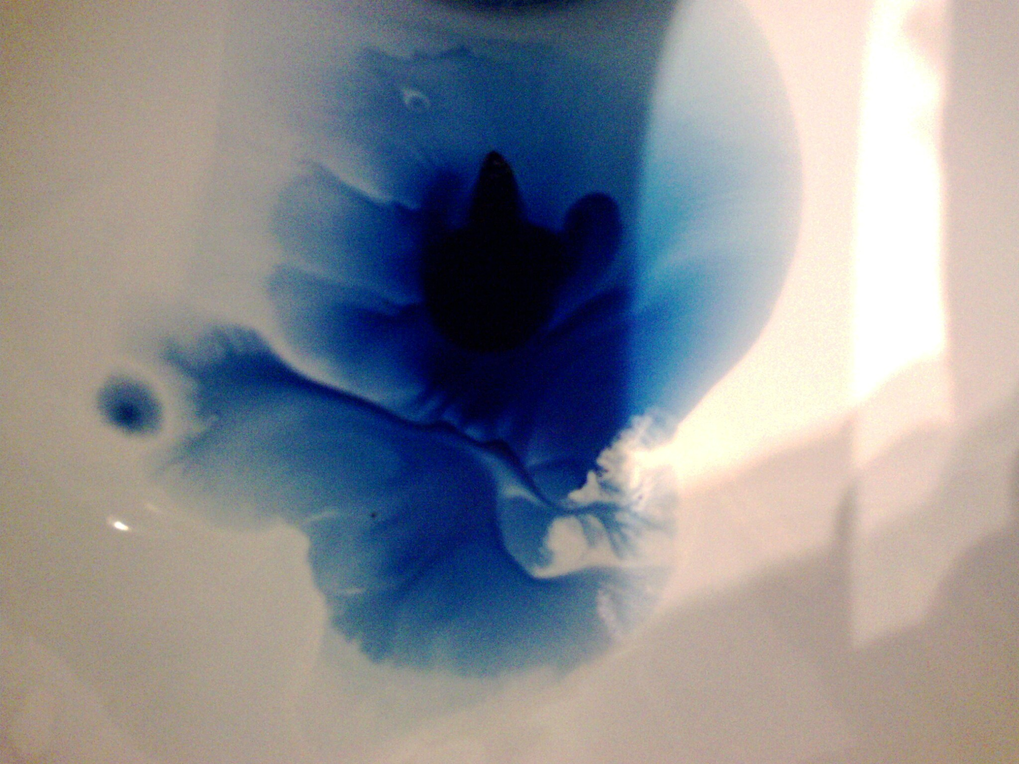 Blue gel pen ink.